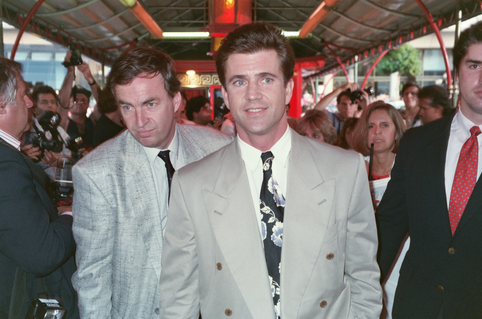 Photo taken at the Filmex benefit premiere of the movie AIR AMERICA, 1990 Permission granted to copy, publish or post but please credit "photo by Alan Light" if you can